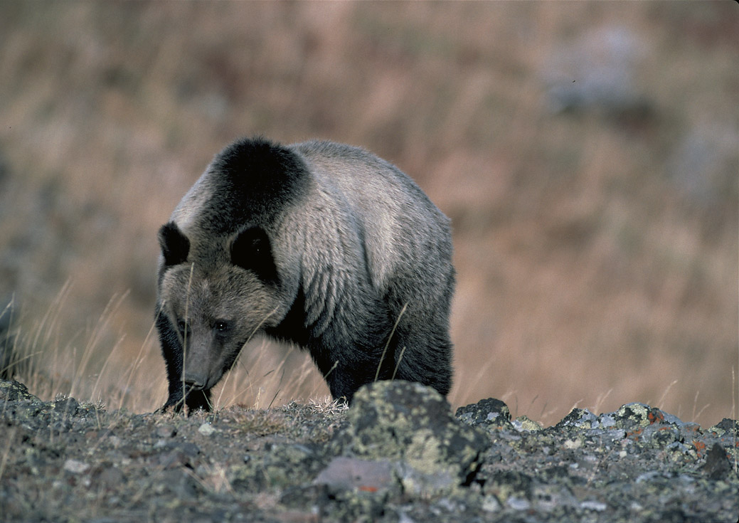 Ursus arctos horribilis (American Grizzly bear)